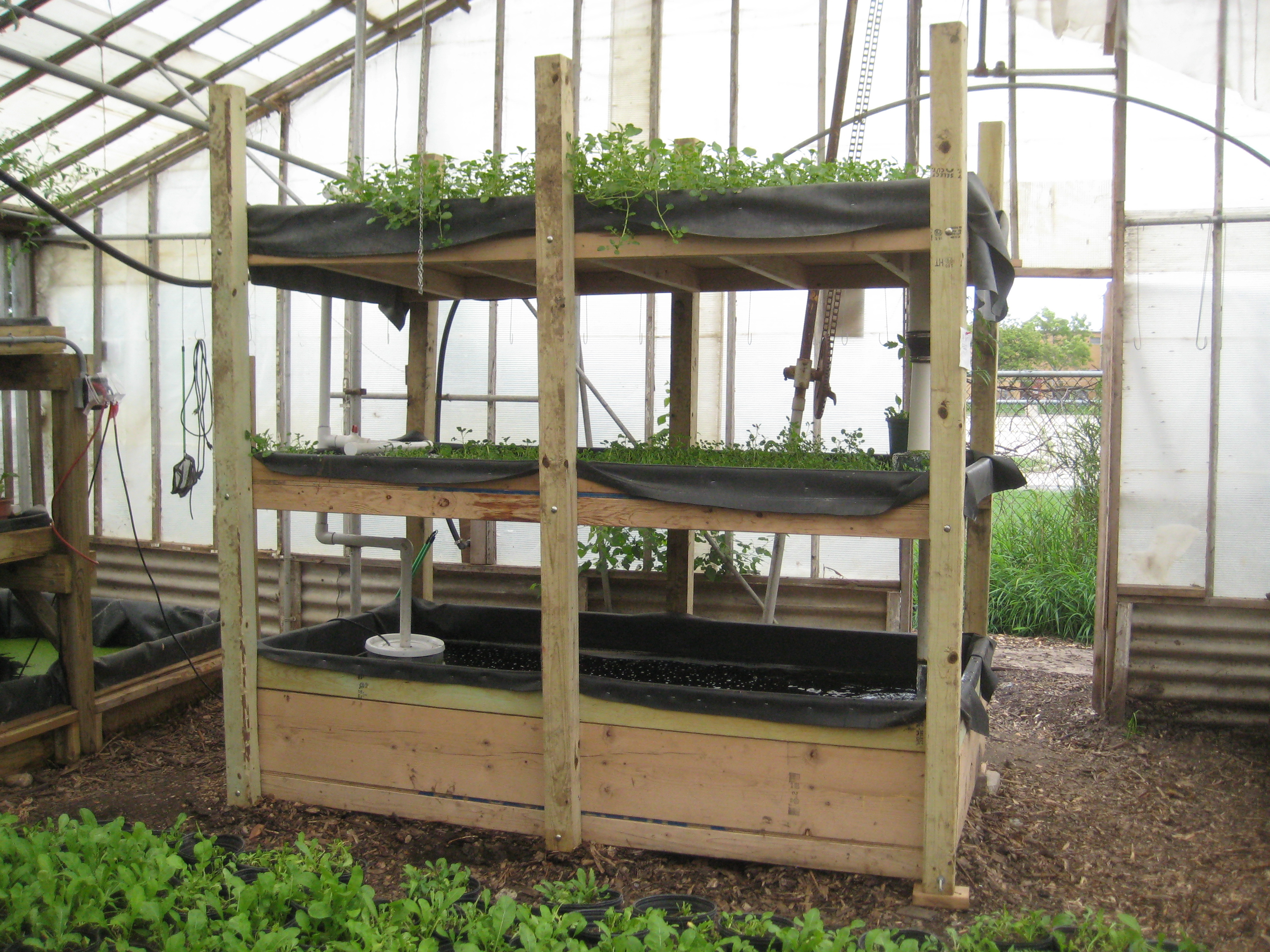 A portable aquaponics system with watercress